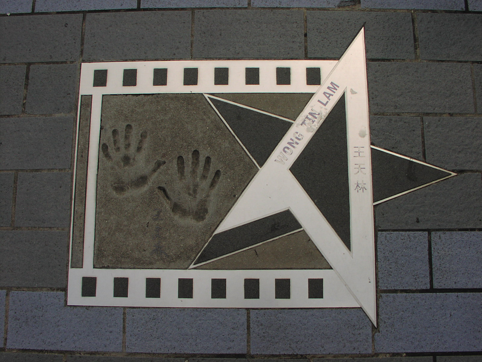 Avenue of Stars, Hong Kong